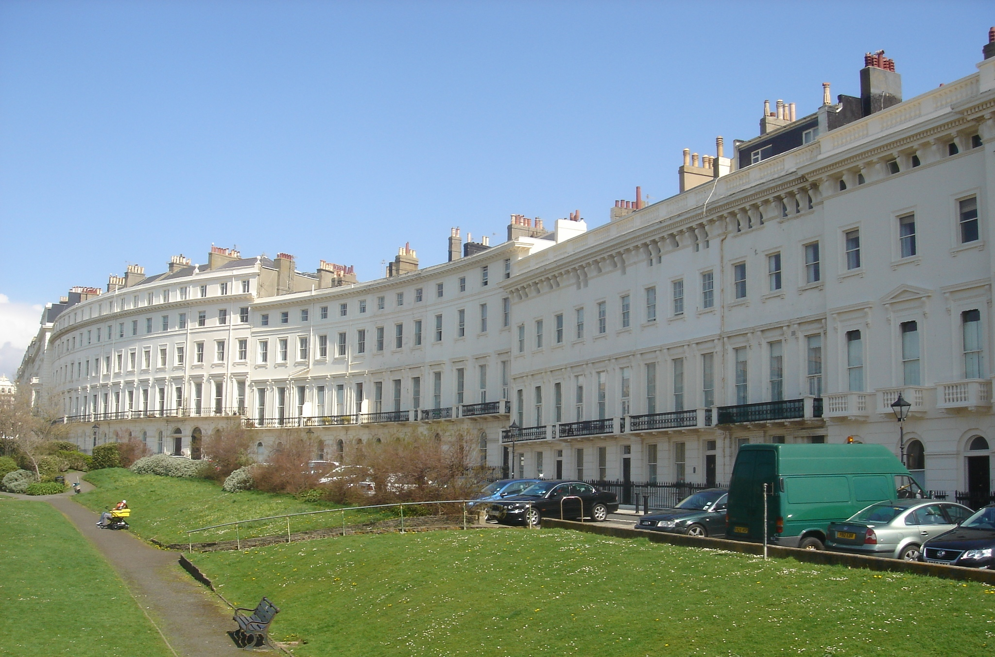 1–19 Adelaide Crescent, Hove, City of Brighton and Hove, England. The east side of the Adelaide Crescent development built in 1860. Listed at Grade II* by English Heritage (IoE Code 365478)